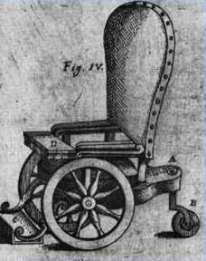 Wheelchair with small 'third wheel' in rear.